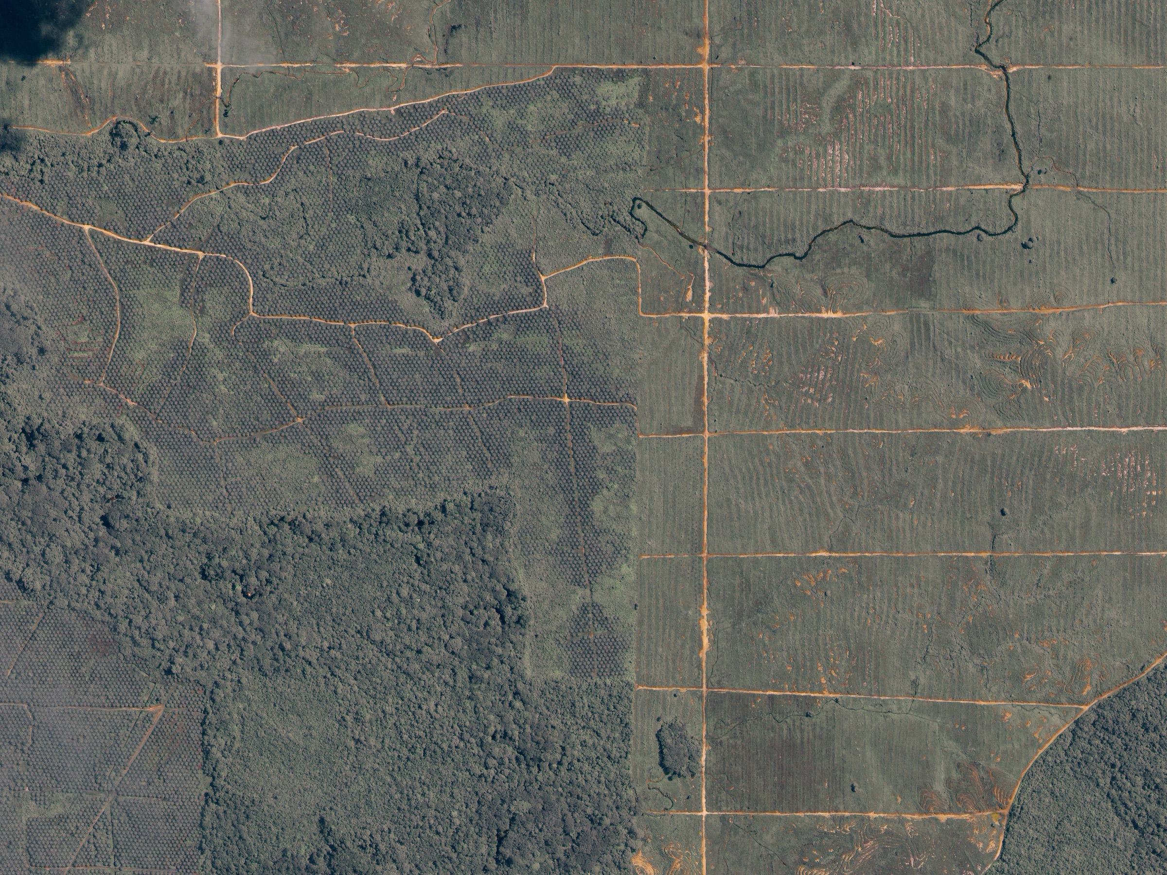 Deforestation in Malaysian Borneo.